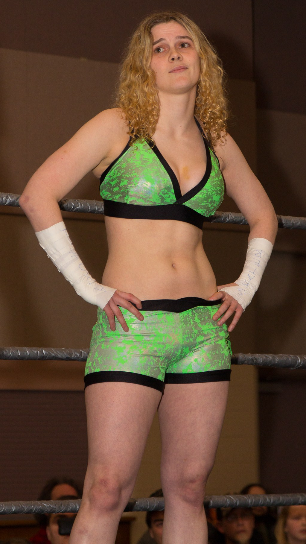 Kellie Skater appears at a CPW Friday Night show on 22 March 2013.